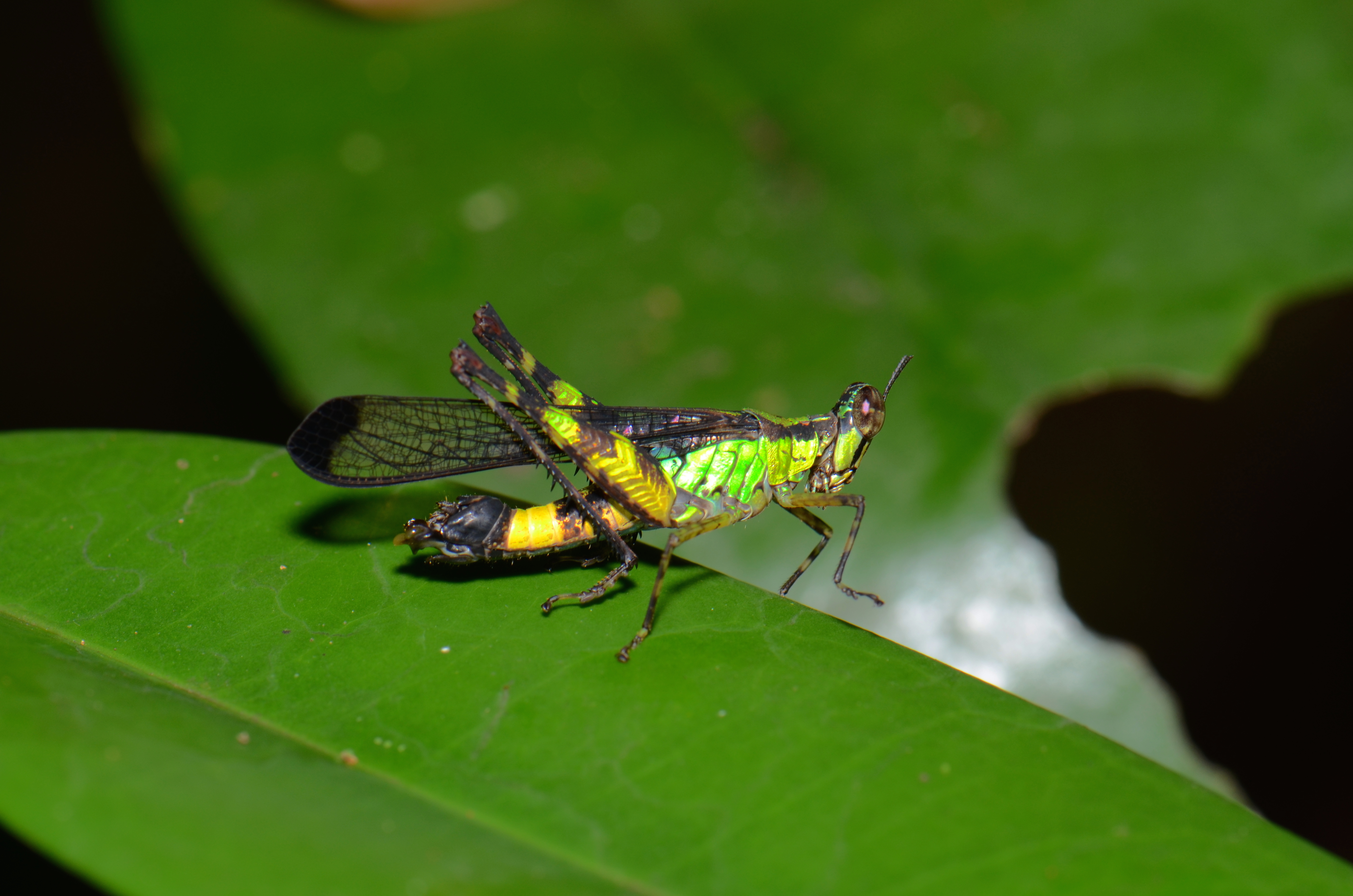 Erianthus sp. from Malaysia. Thanks to Gerry for ID